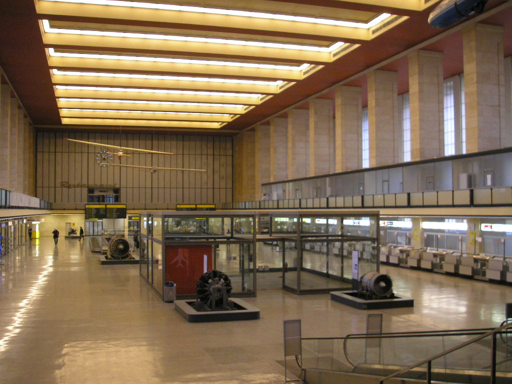 Interior of Berlin Tempelhof Airport Terminal